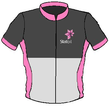 Leaders Jersey of Statoil Kring Foroyar 2010